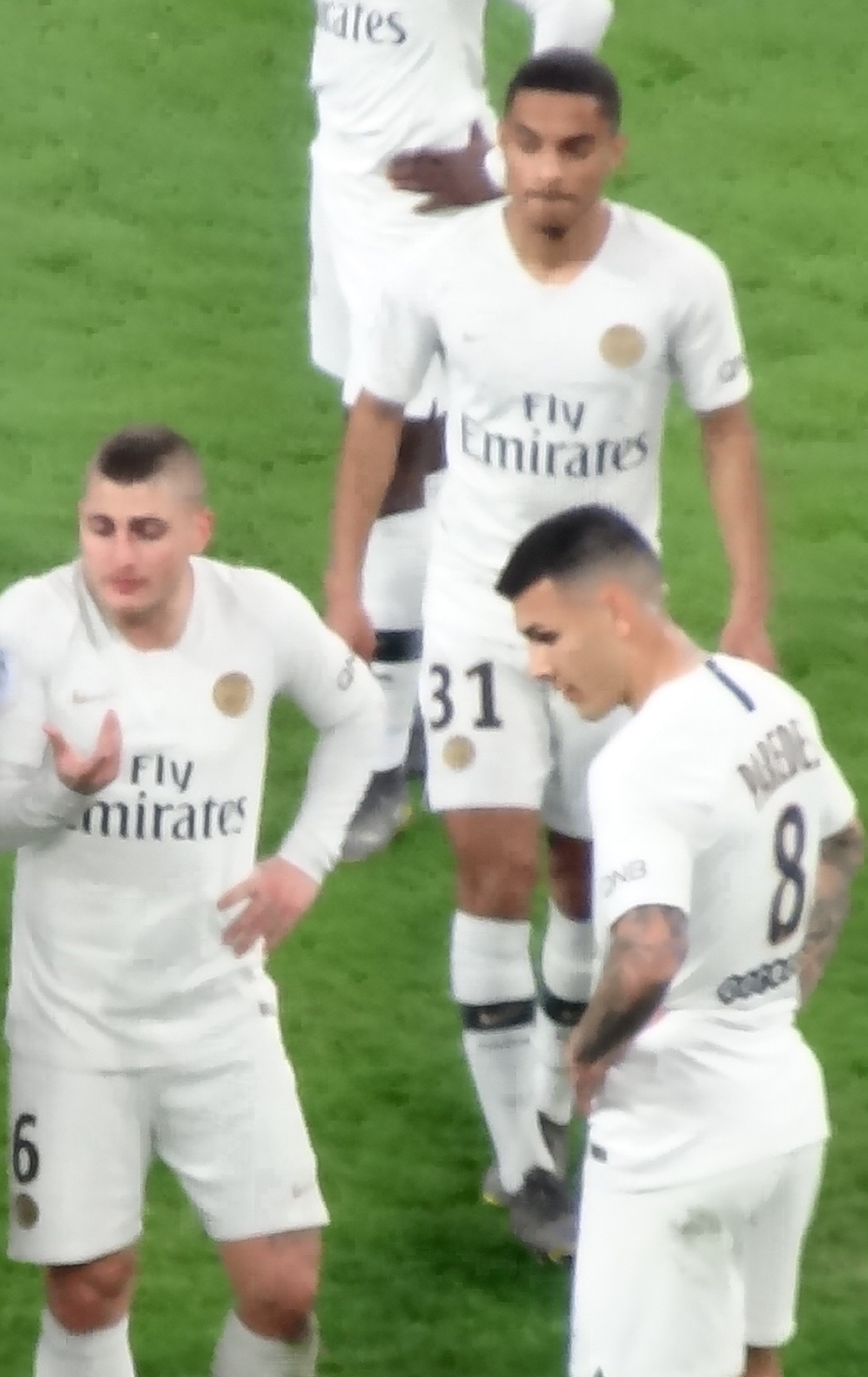 Verratti, Dagba & Paredes